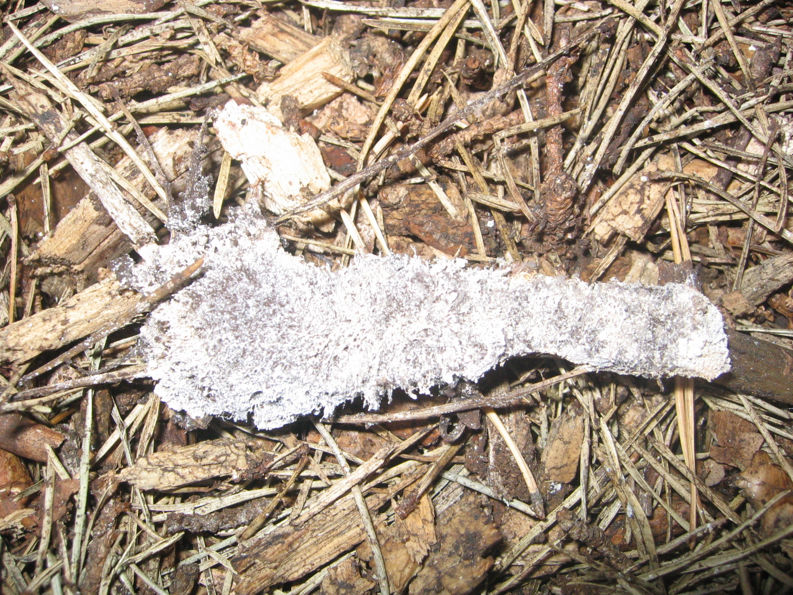 Yellow slime mould, Fuligo rufa, (Myxogastria), old